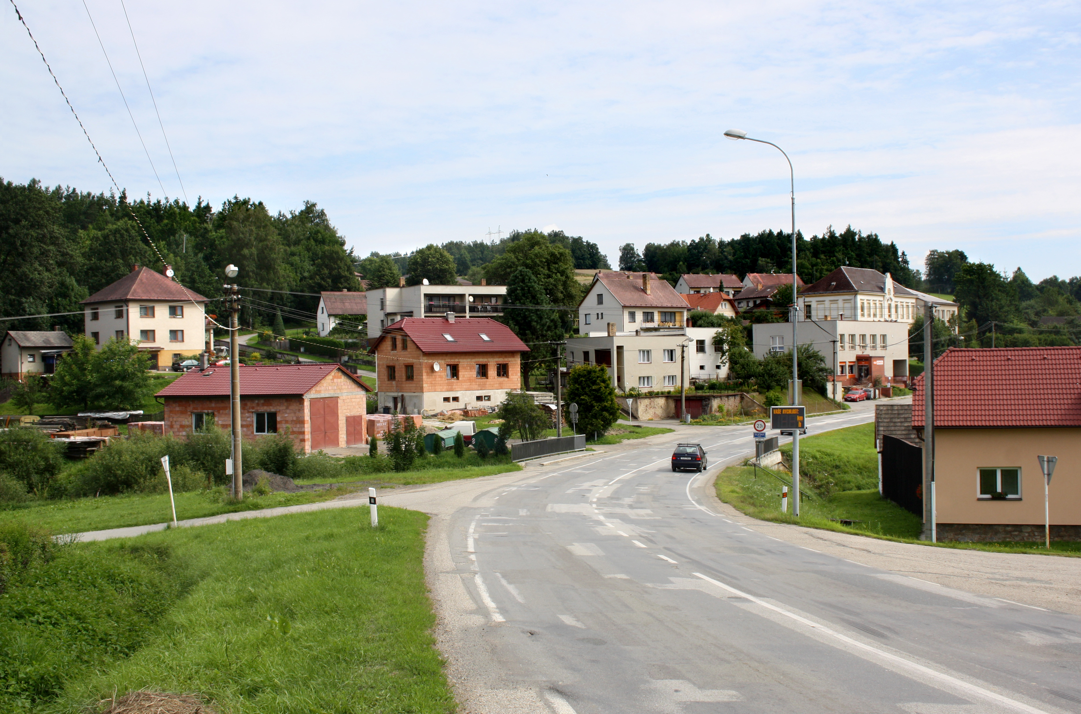 West part of Olešná village, Czech Republic